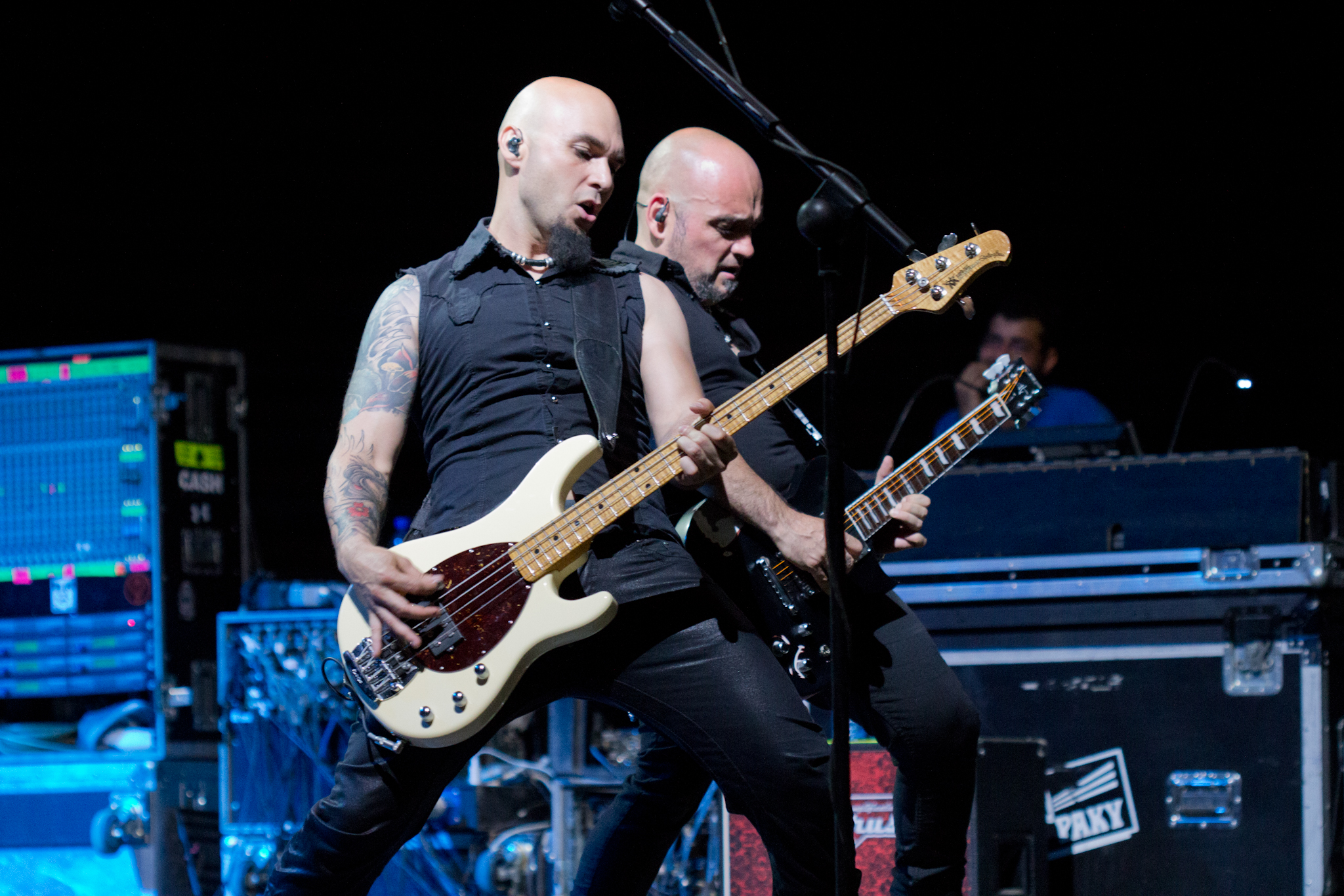 Spanish metal band Sôber at Asaco Metal Fest 2013, Parla, Spain.